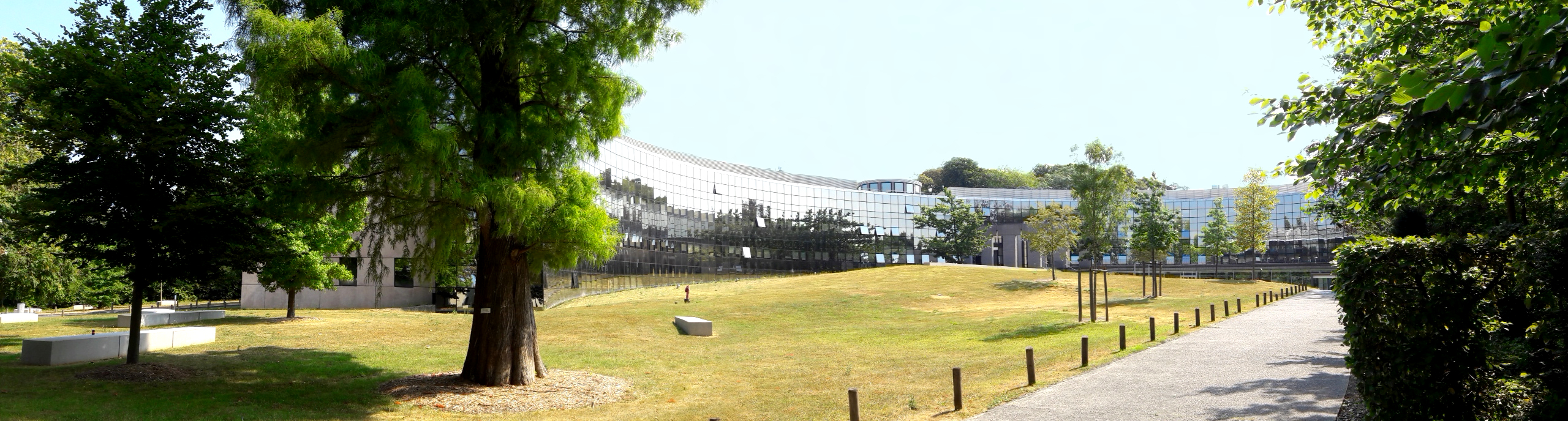 Edhec Business School panorama